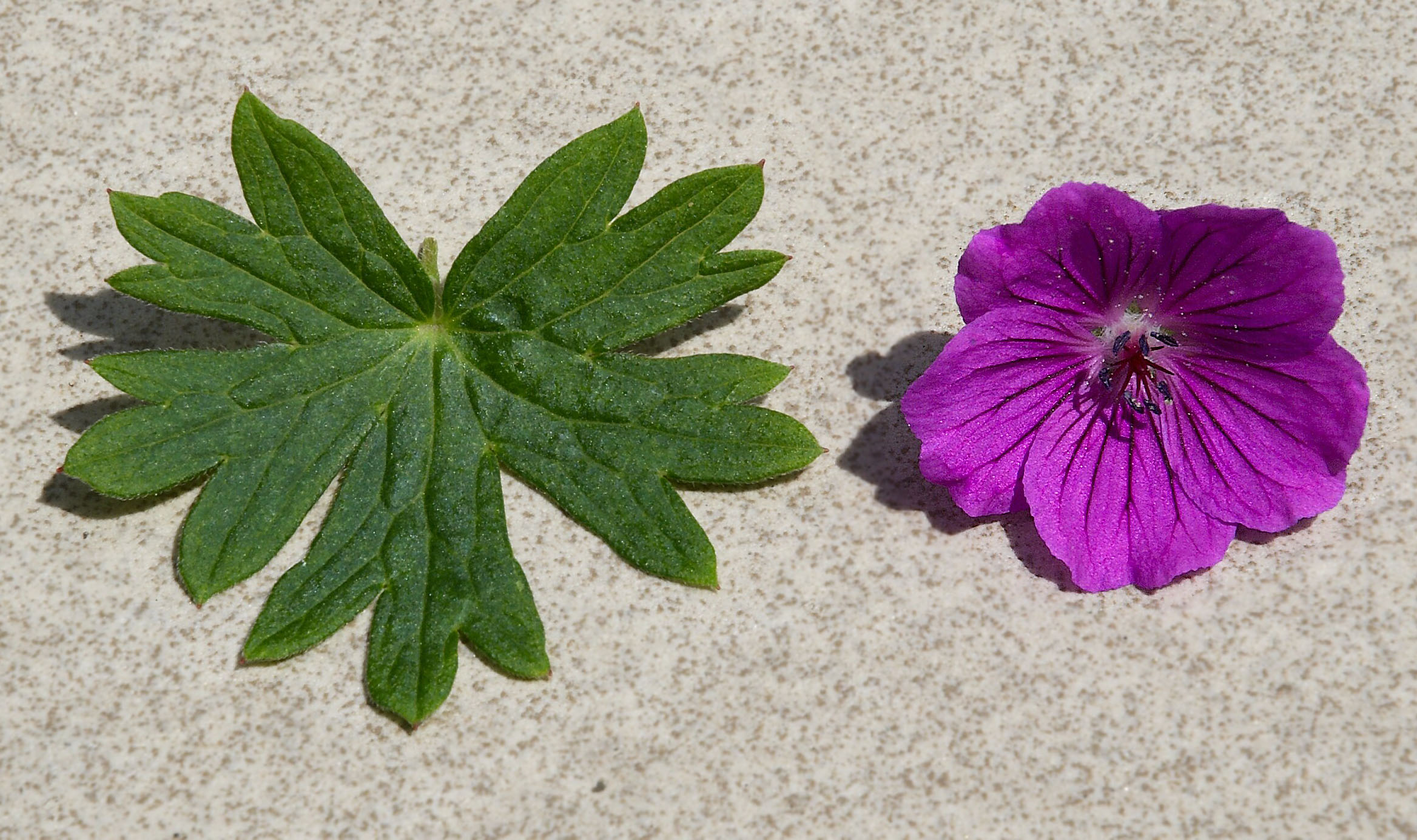 Geranium sanguineum 'Leeds form'